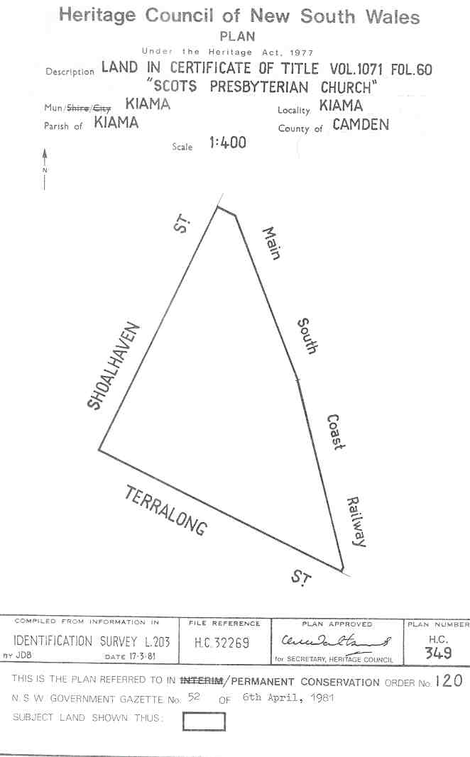 Scots Presbyterian Church, Kiama: PCO Plan Number 120